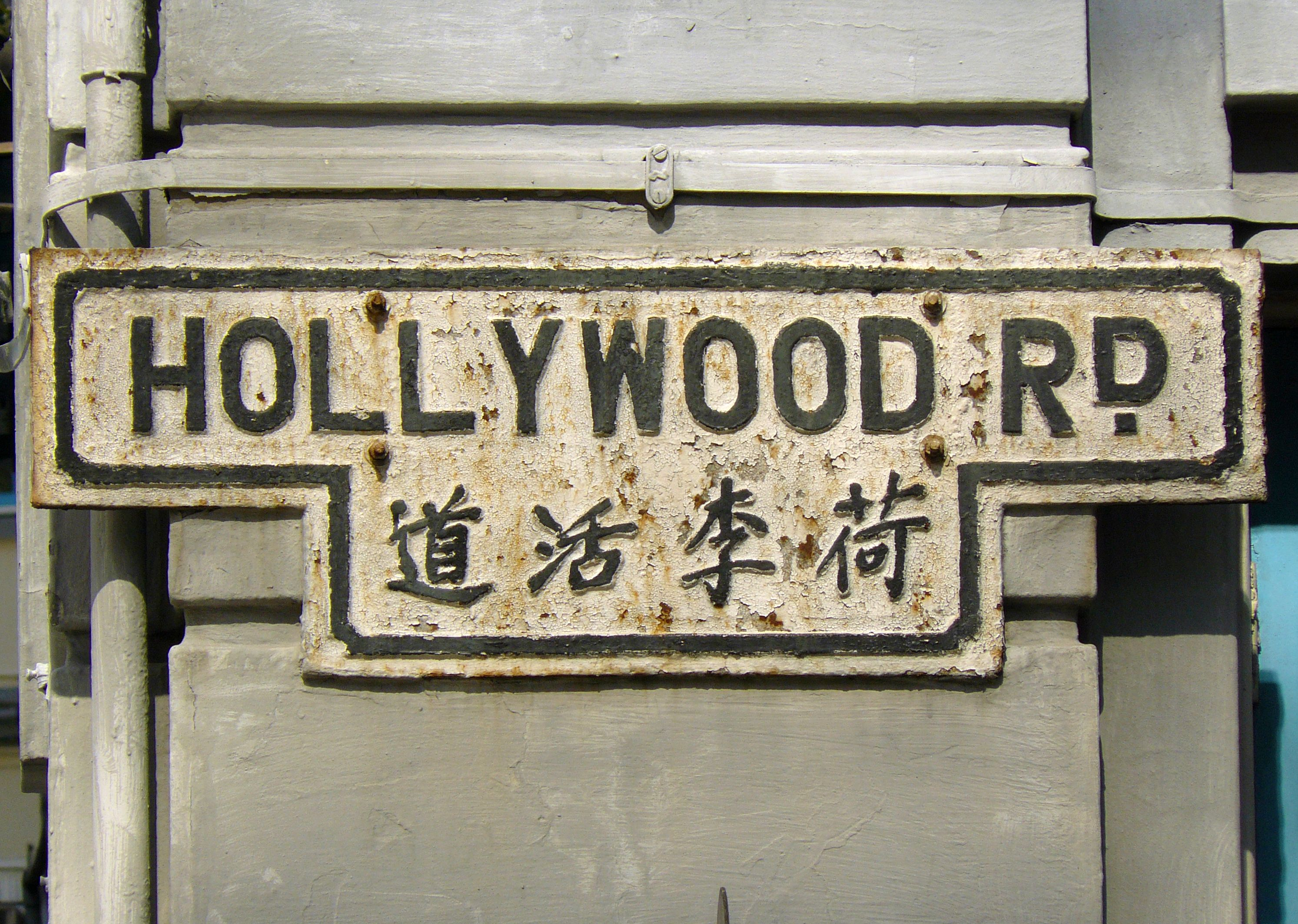 Hollywood Road, Hong Kong